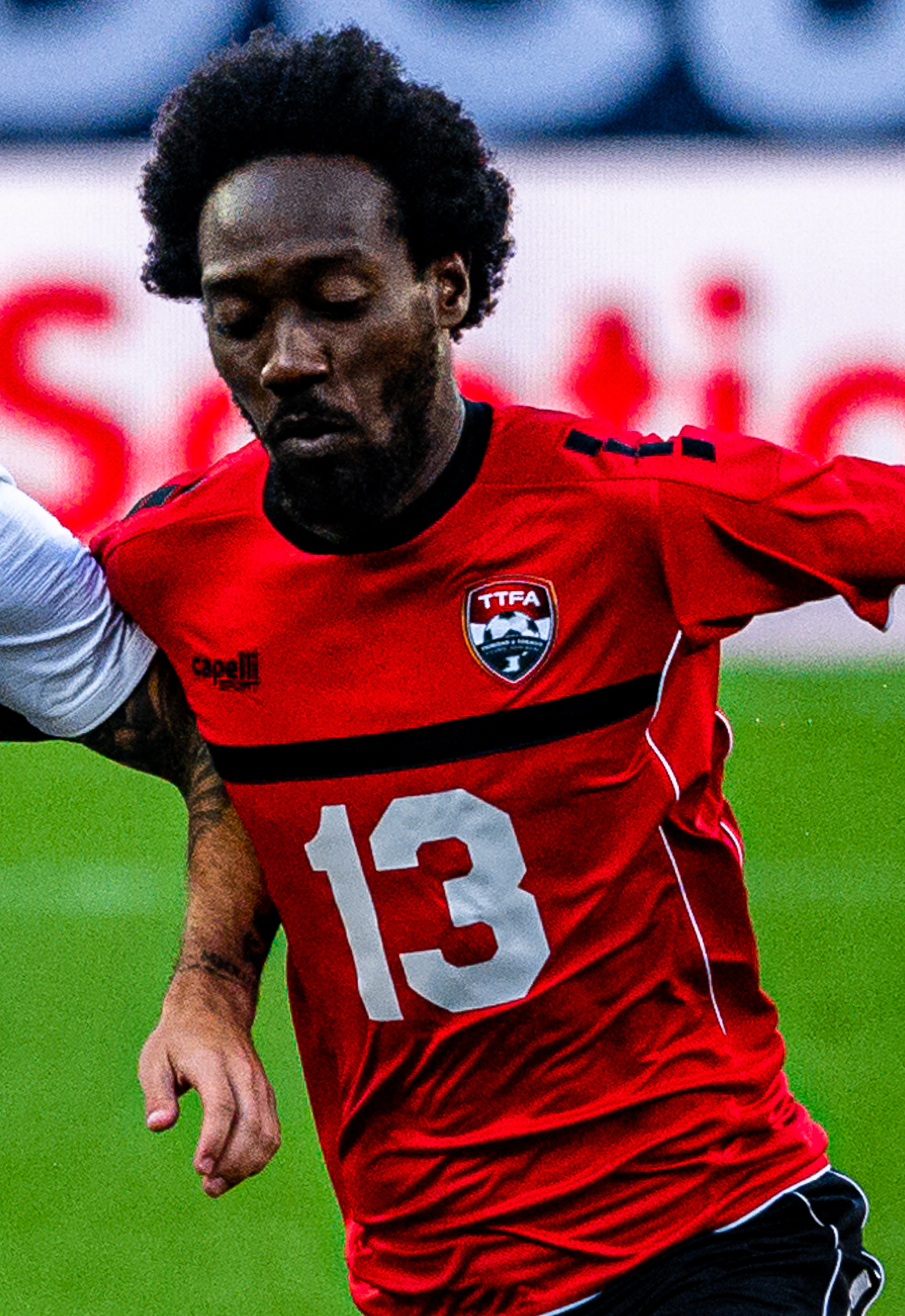 USMNT vs. Trinidad and Tobago